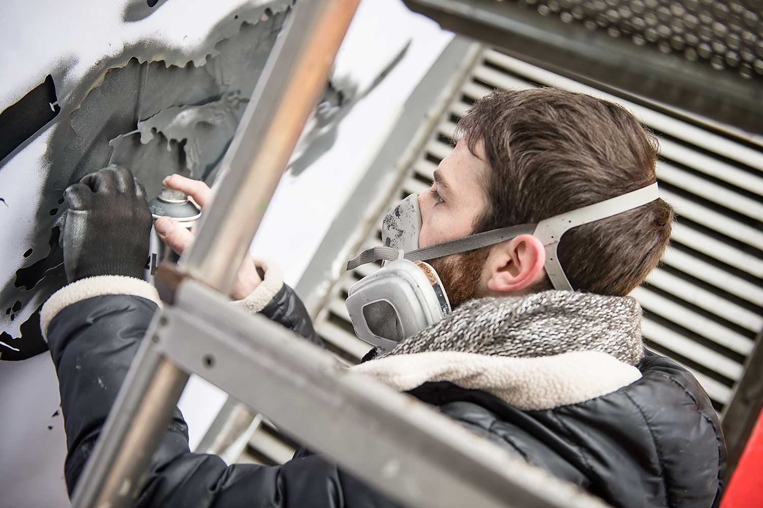 KURAR in BERLIN for the cut it out show at the URBAN NATION Gallery / 2015